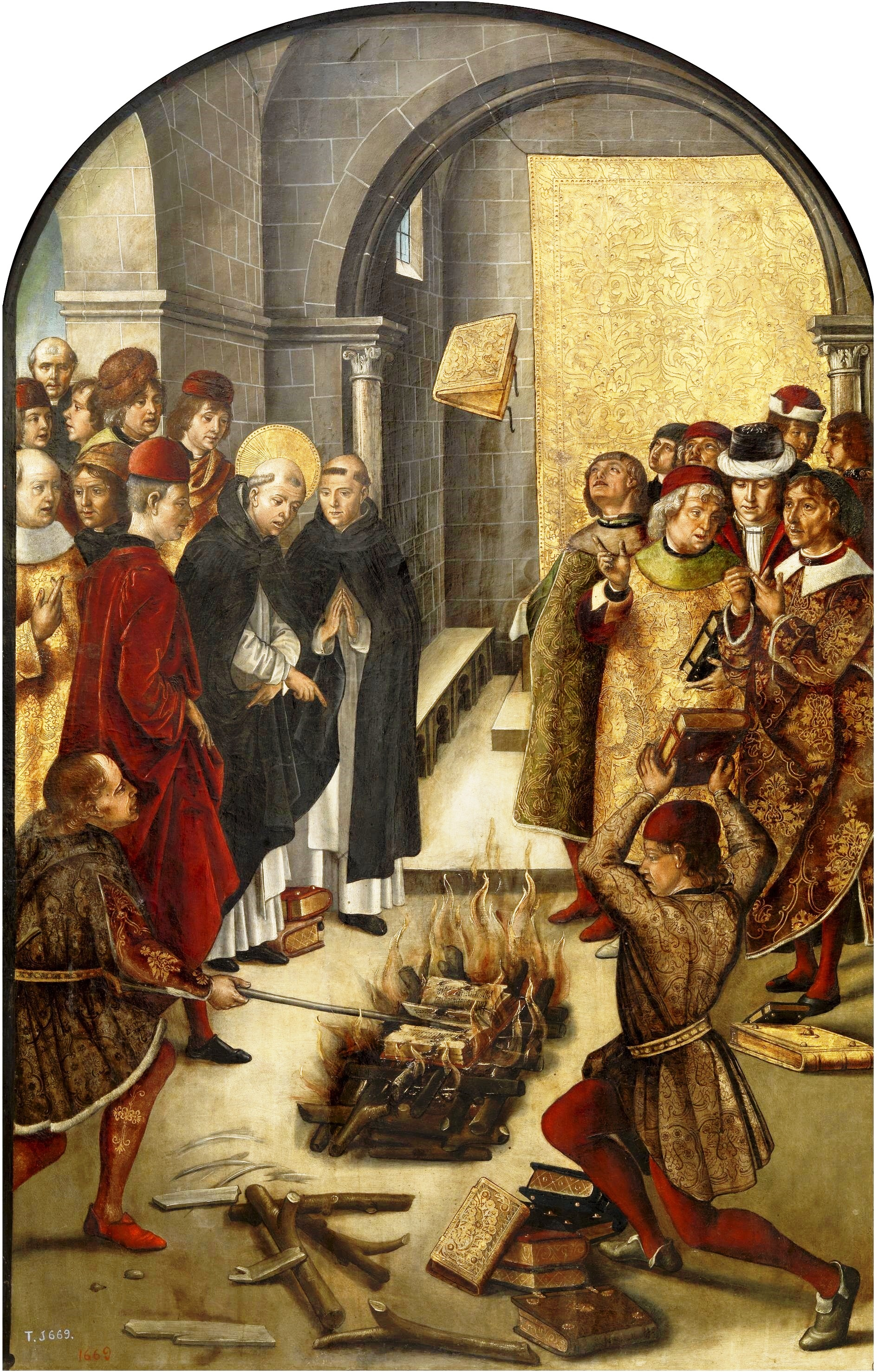 This portrays the story of a dispute between Saint Dominic and the Cathars in which the books of both were thrown on a fire and St.Dominic's books were miraculously preserved from the flames. This was believed to symbolize the wrongness of the Cathars' teachings.